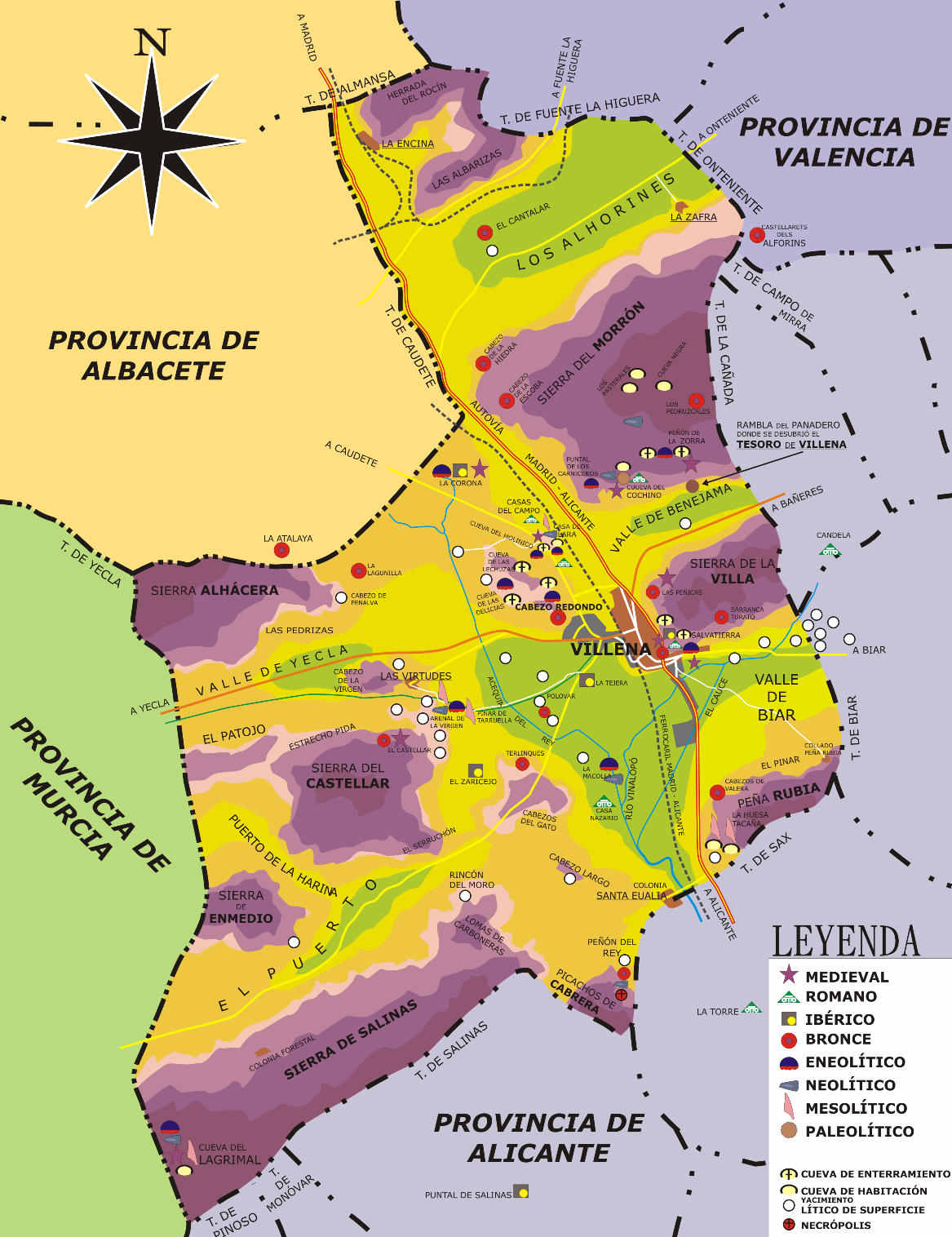 Map depicting the places where archaeological remains have been found in Villena's municipality